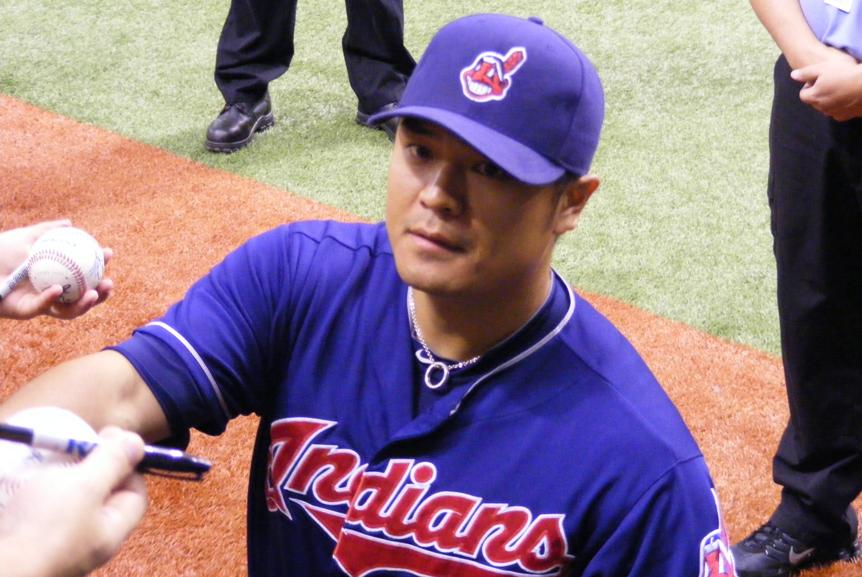 Shin-Soo Choo signs autographs for fans prior to a game against the Tampa Bay Rays at Tropicana Field on July 17, 2012.